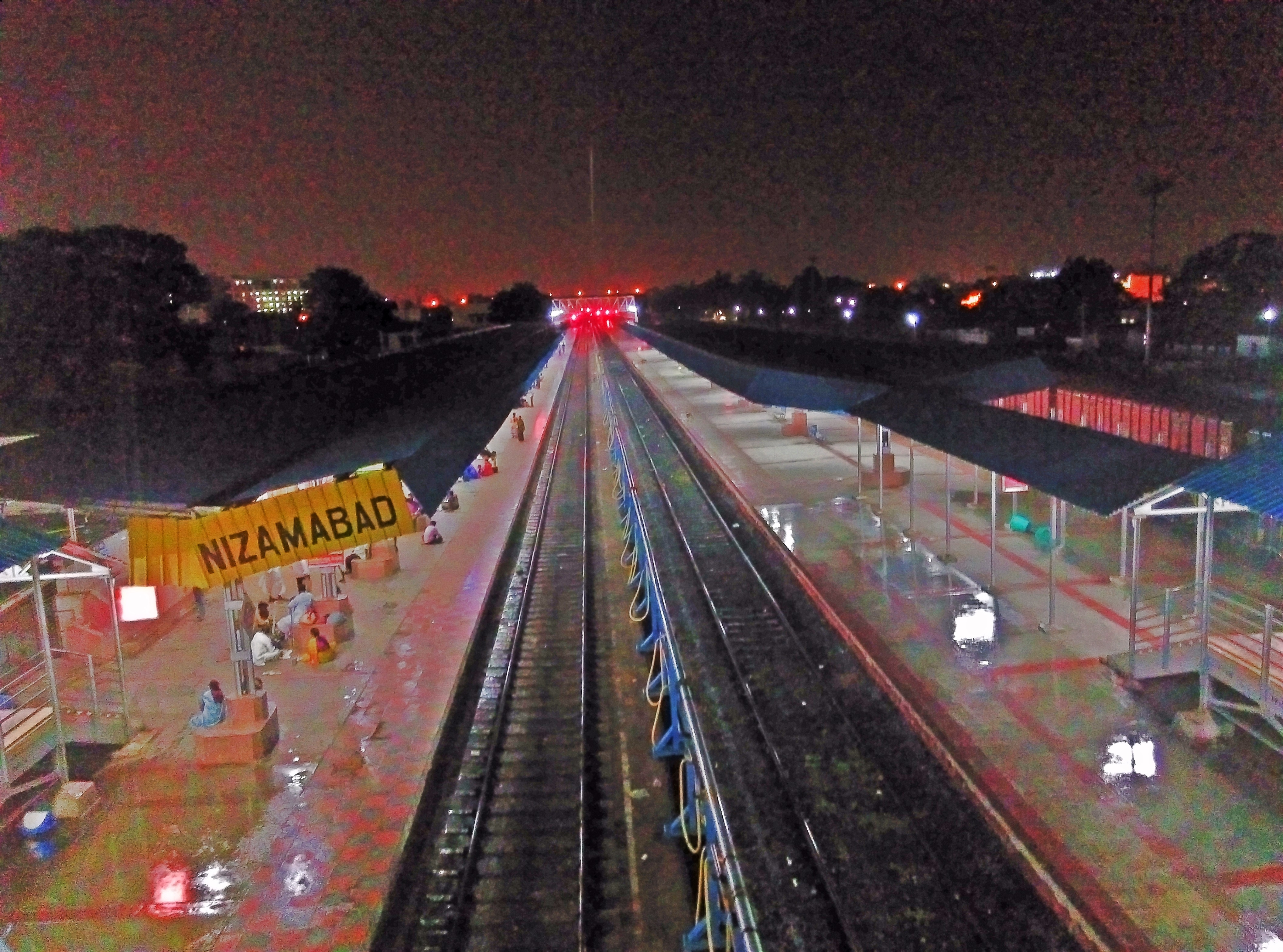 This is the picture taken from a foot over bridge at Nizamabad Railway Station.